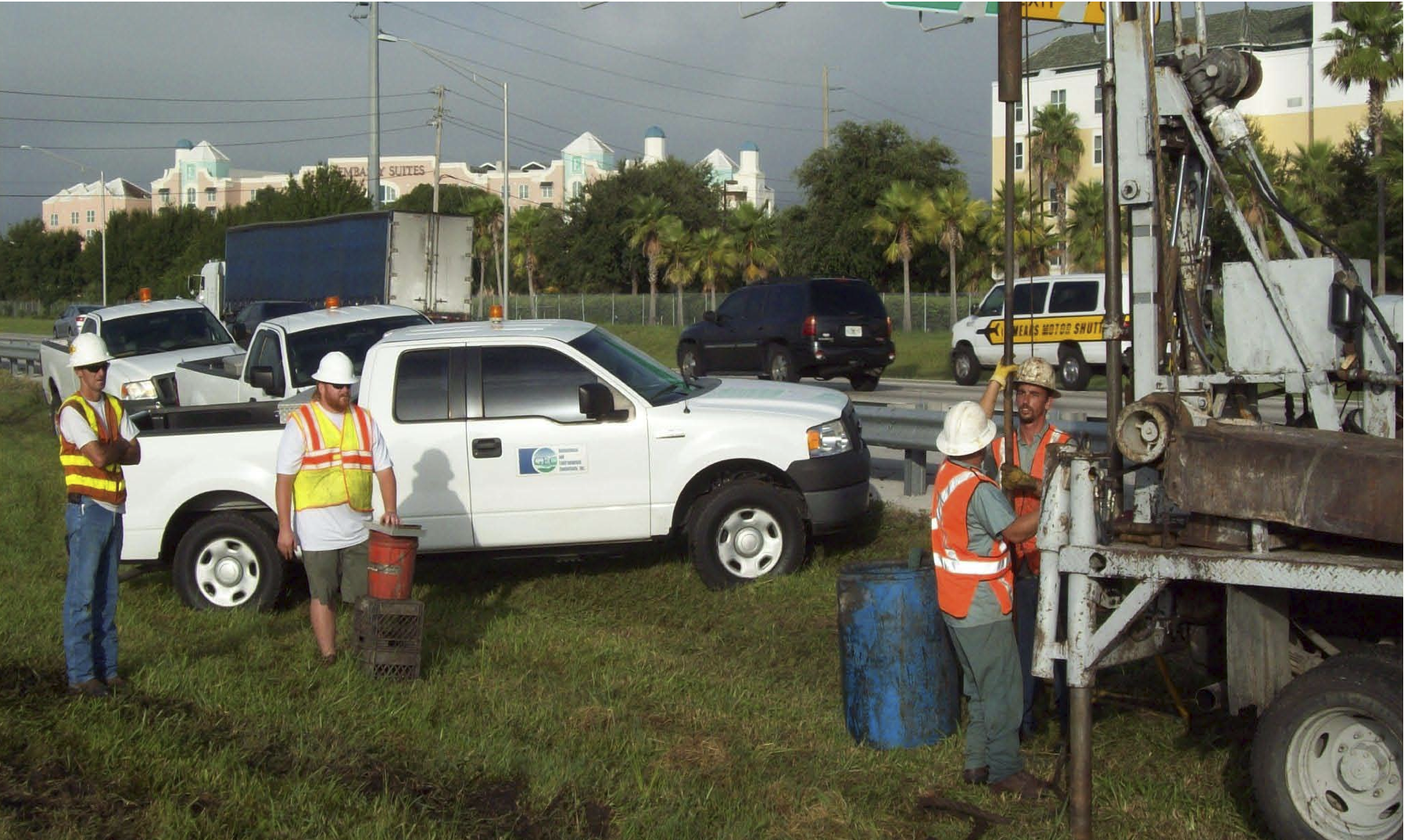 Early Geotechnical work on the Florida High Speed Rail